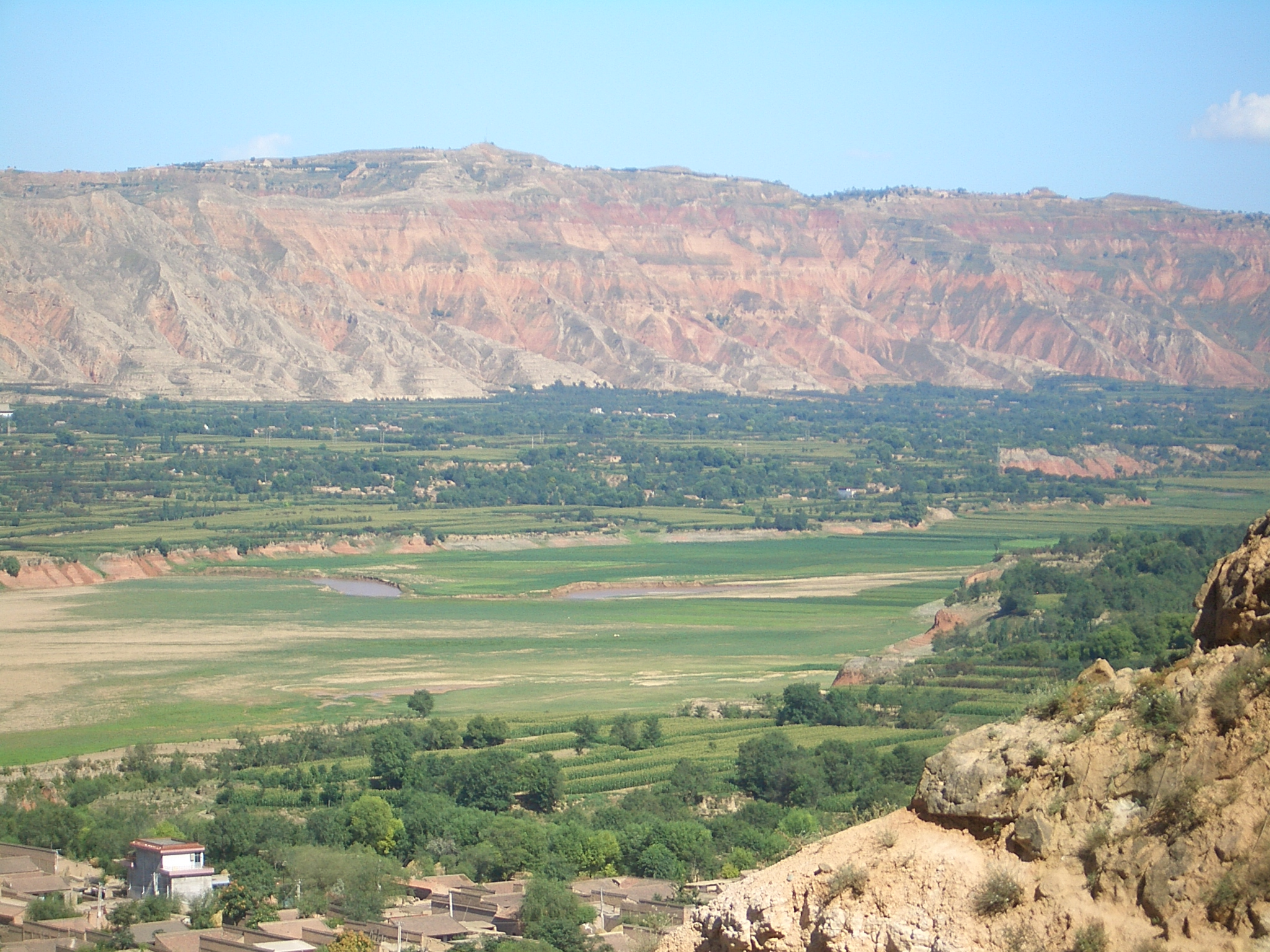 Fields in Daxia He River Valley, in the northeastern part of Linxia County (probably, Xihe Township). The other side of the river, and the hills in the background, are already in Dongxiang Autonomous County